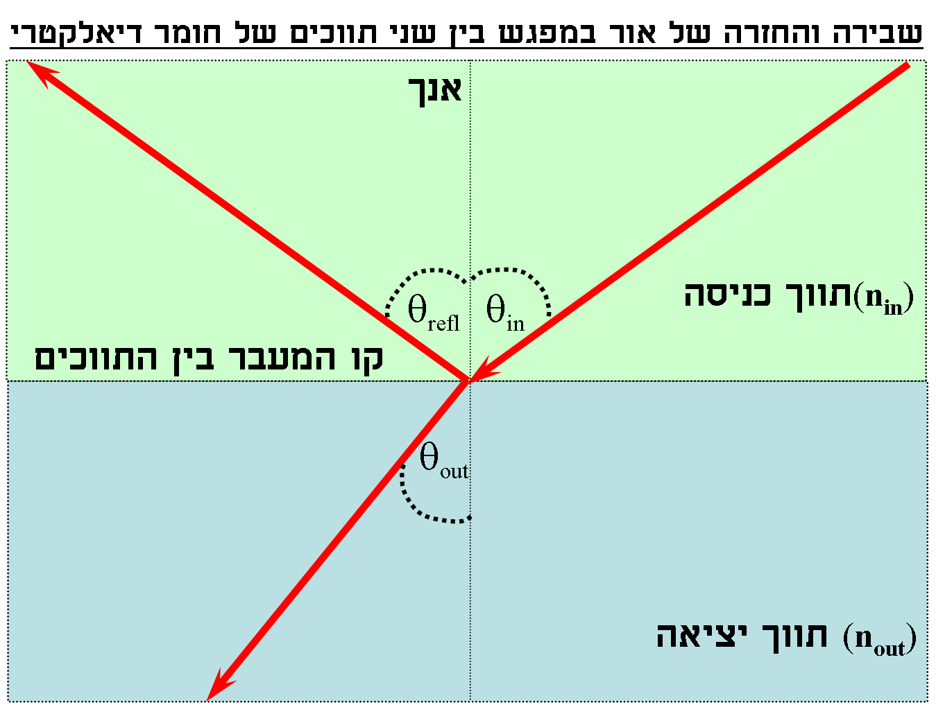 light incident on a flat interface between two materials where it is reflected and refracted